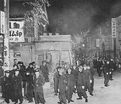 Jujo Koban Bombing Incident